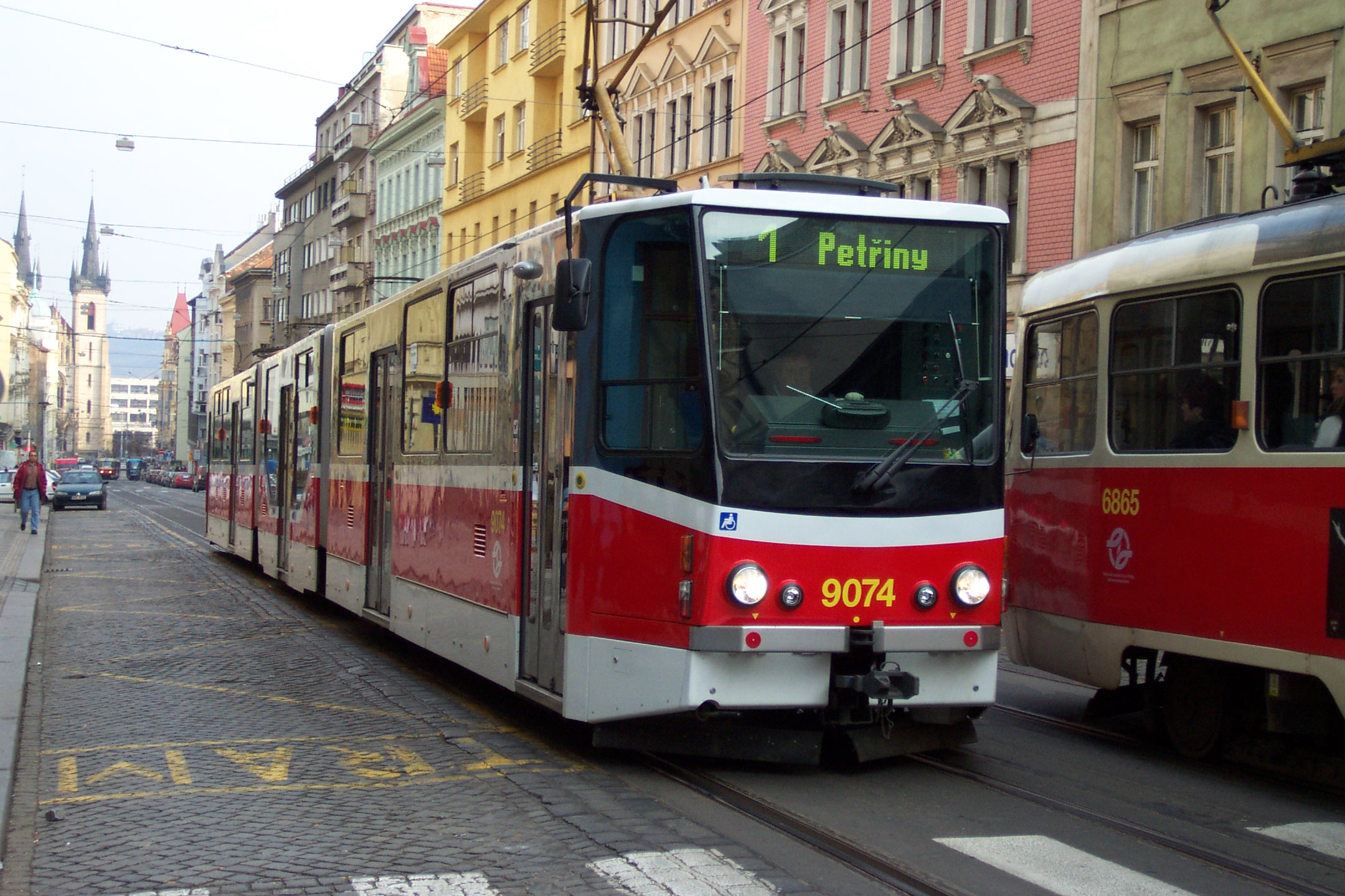 Tram type KT8D5R.N in Prague Holešovice